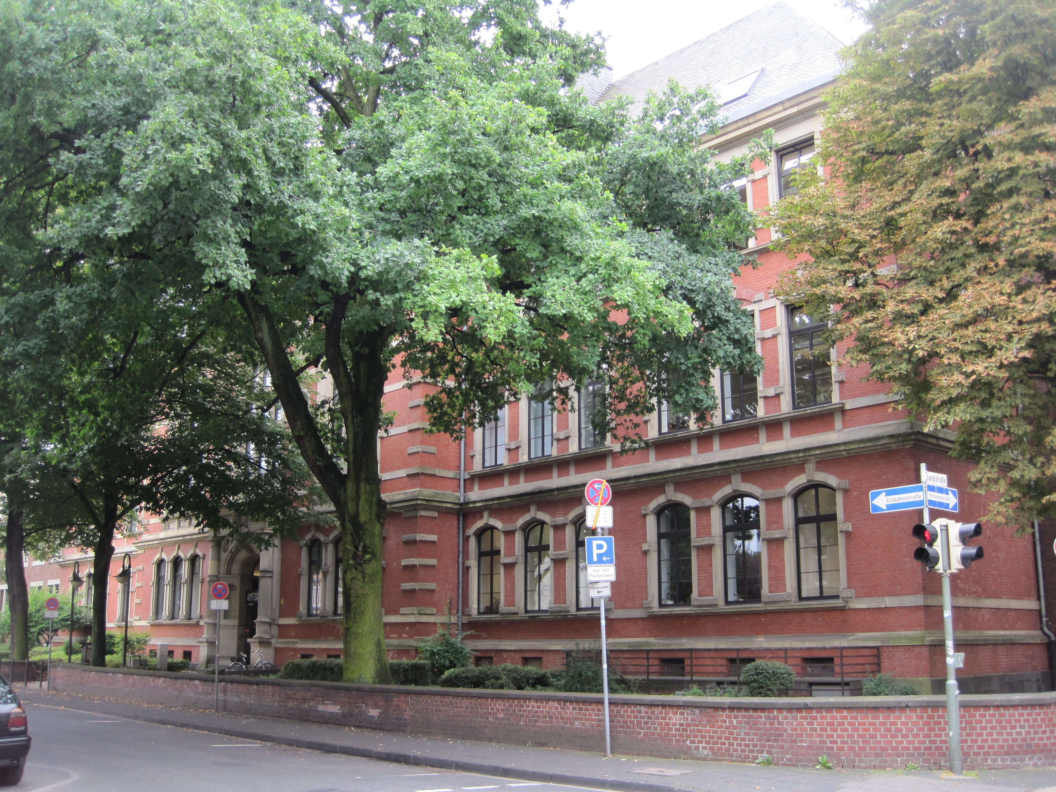 Courthouse Amtsgericht Neuss, Neuss, Germany check usage